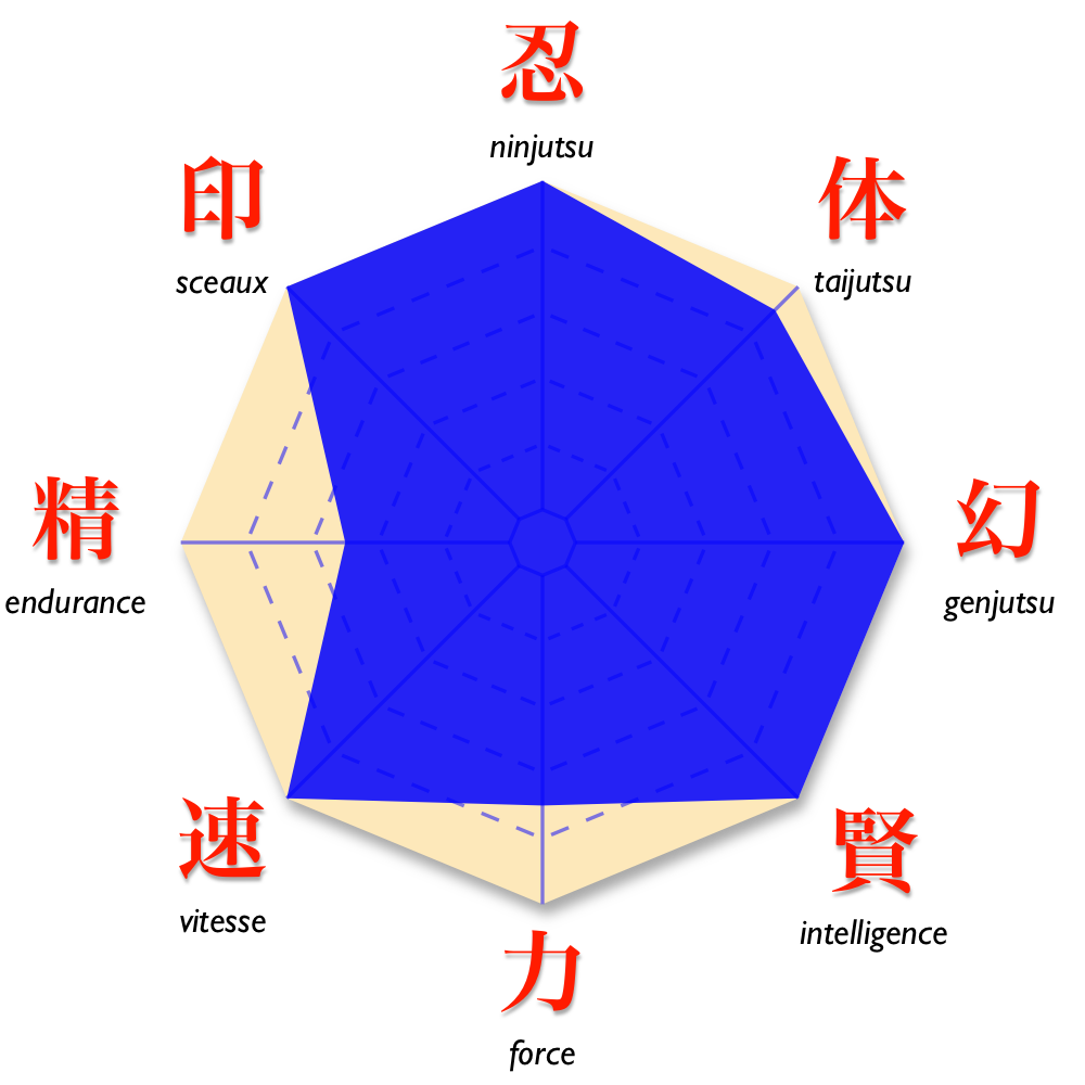 "Naruto" manga - Character "Itachi" - Capabilities diagram from Official Databooks data